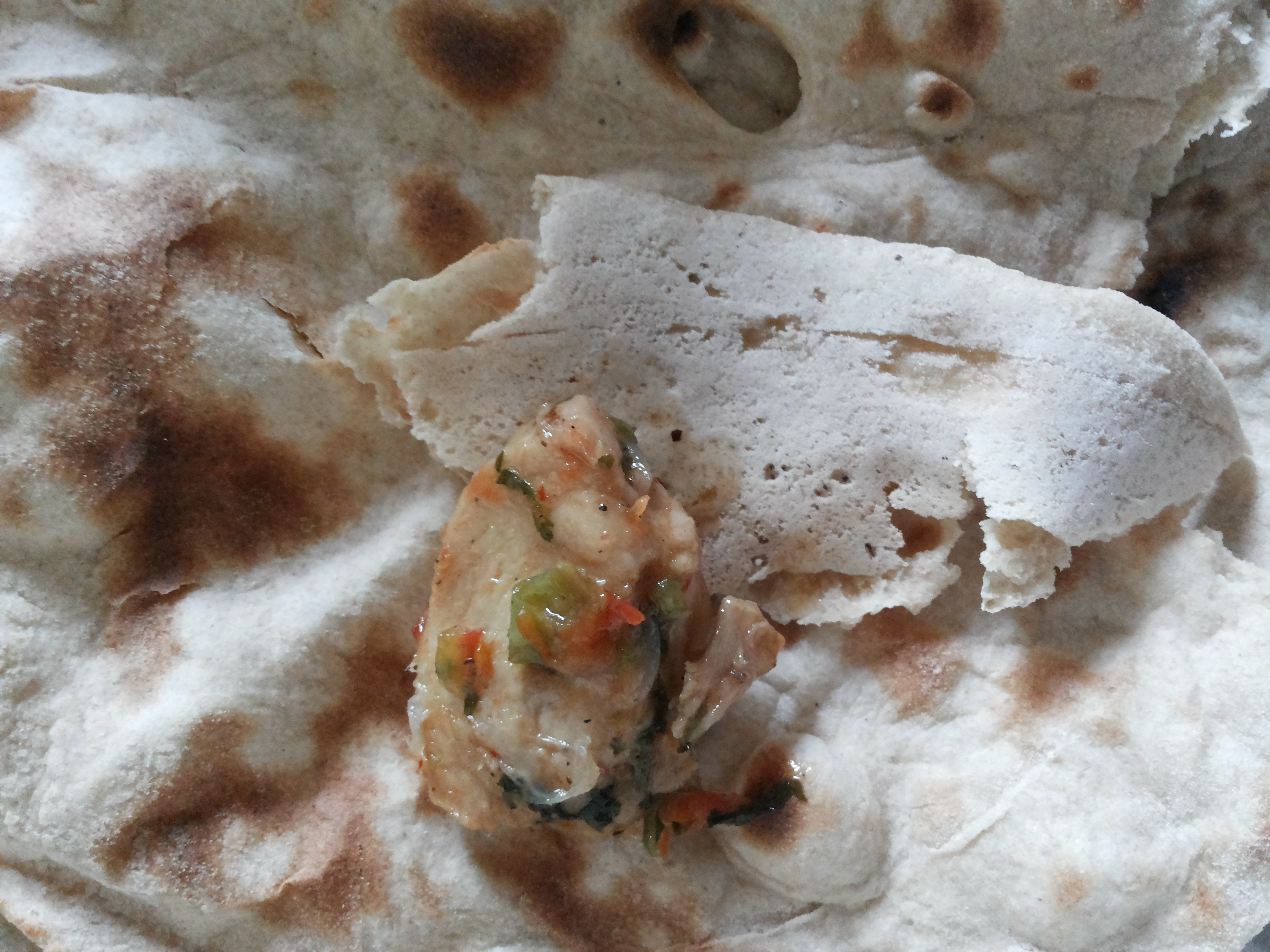 A Punjabi chapati (bread) with a steak of chicken meat